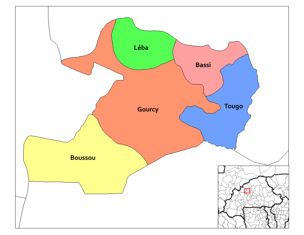 This map has been uploaded by Osiris fancy from to enable the Wikimedia Atlas of the World. Original uploader to was Rarelibra. Osiris fancy is not the creator of this map. Licensing information is below. Map of the departments of Zondoma province in Burkina Faso. Created by Rarelibra 03:41, 30 September 2006 (UTC) for public domain use, using MapInfo Professional v8.5 and various mapping resources.